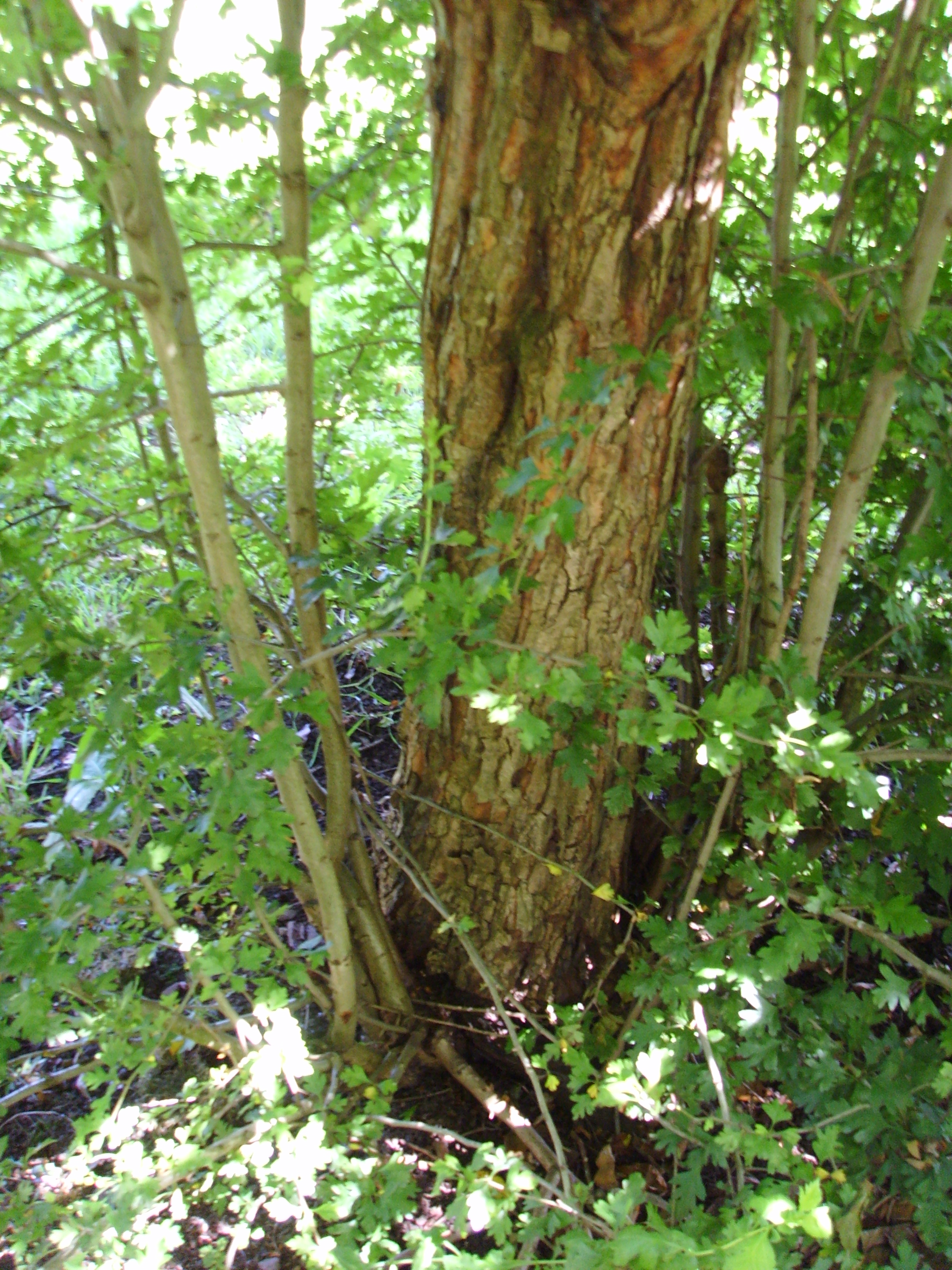 Medlar growing on Hawthorn rootstock (note Hawthorn root sprouts). Totnes, UK, June 2008